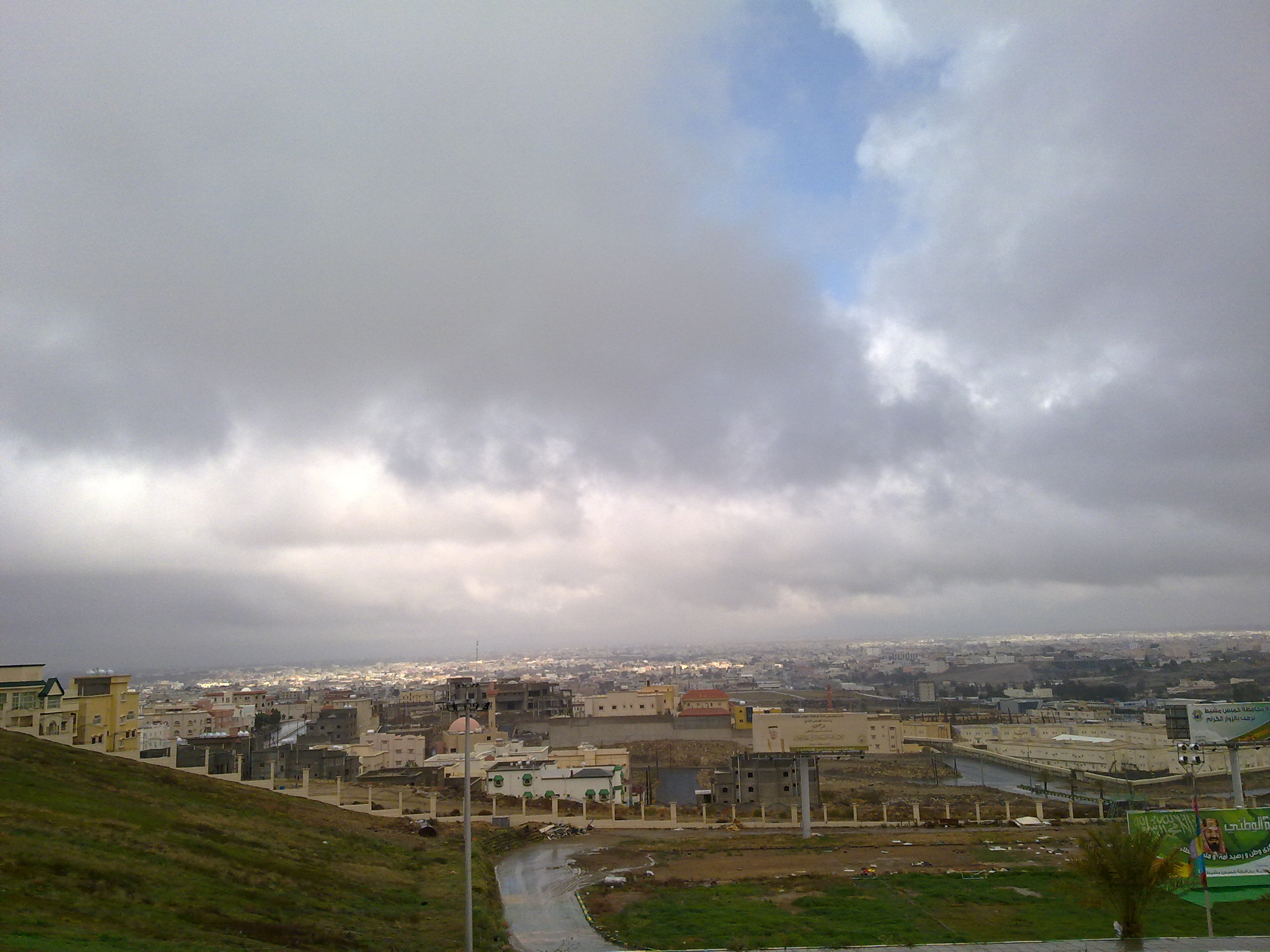 Top view of the city of Khamis Mushayt under the clouds